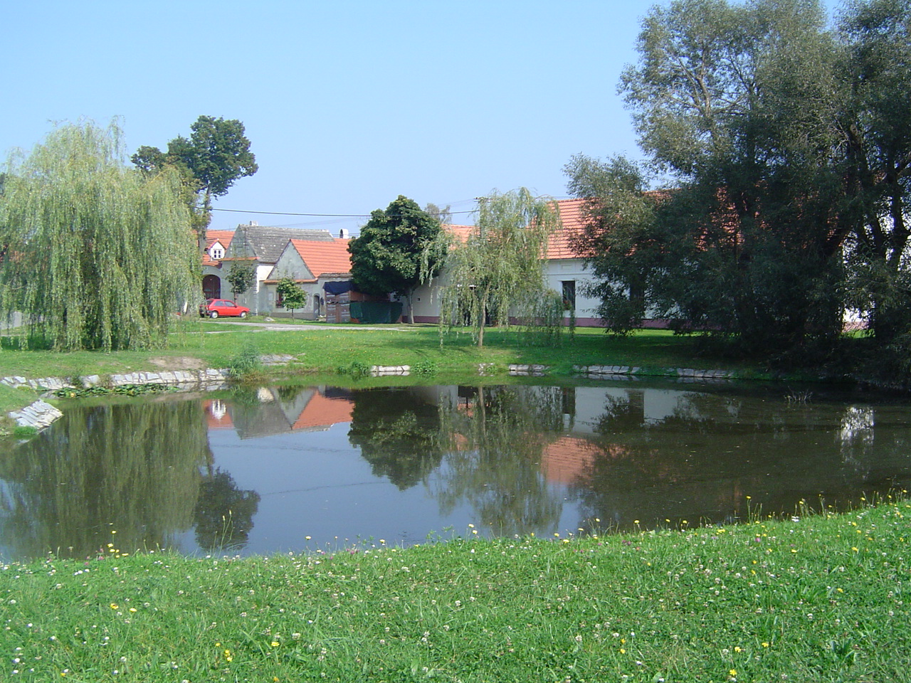 Mazelov - pond in the center of the village